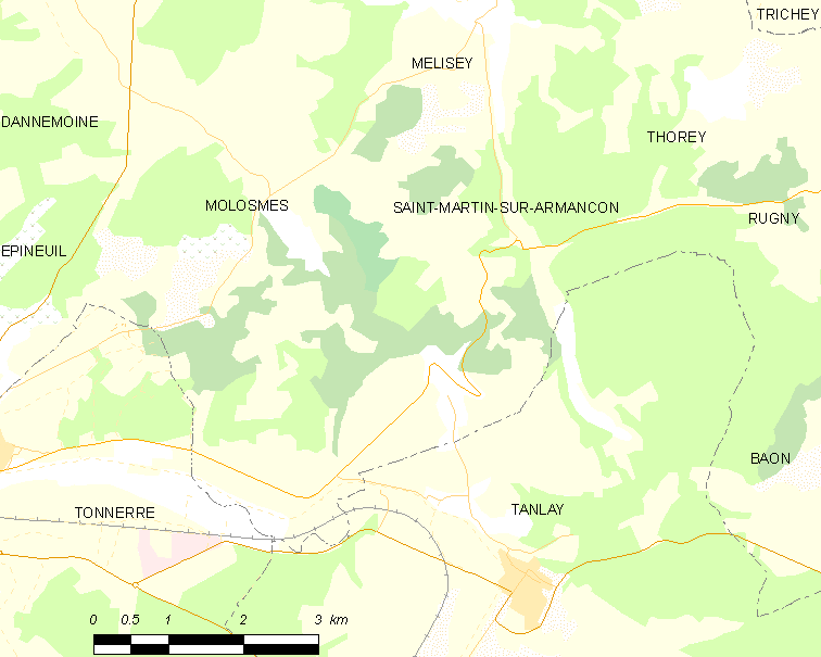 Map of French municipality Saint-Martin-sur-Armançon